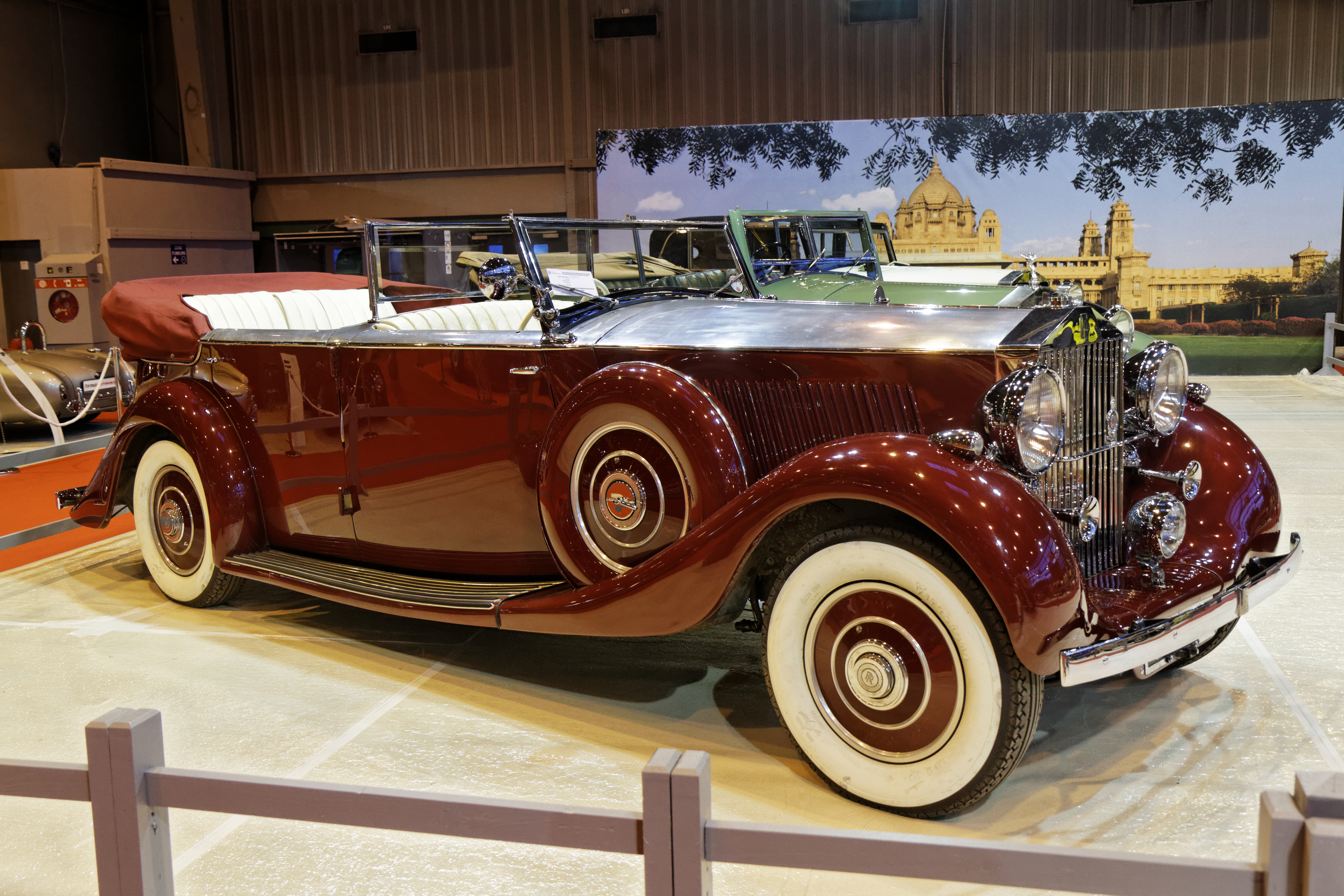 La Rolls Royce Phantom III exposée lors du salon Retromobile 2014 Barker seven-seater open tourer Exterior: ivory, brown roof with fawn lining Interior: ivory leather fitted with division and two occasional seats Chassis 3BU134 One of only two open tourers on Phantom III chassis first owner: Maharaja Lt-Col. Sir Shri Rajaram Chhitrapati of Kolhapur (30 July 1897 to 26 November 1940)